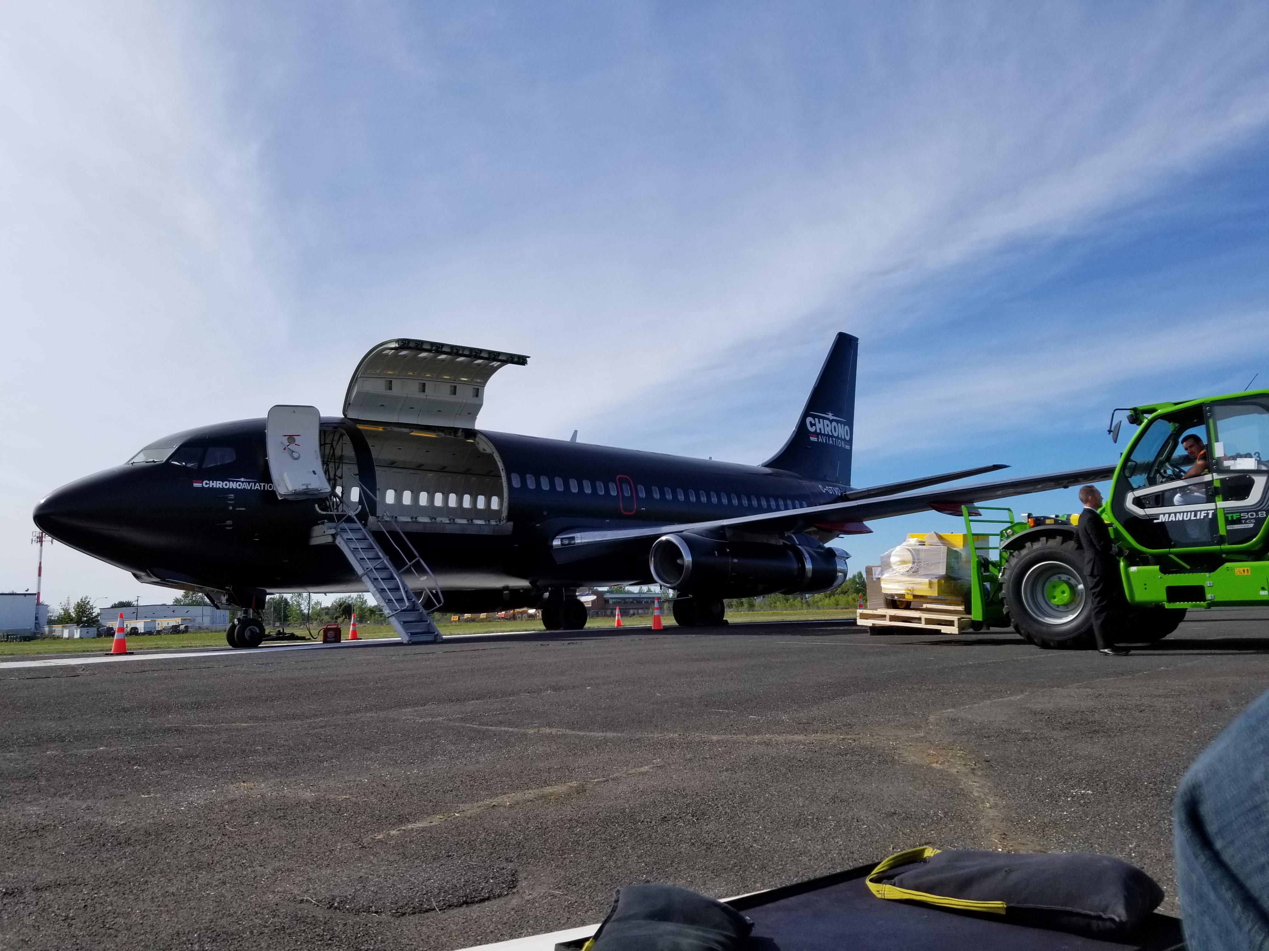 Chrono Aviations Boeing 737-200 combi